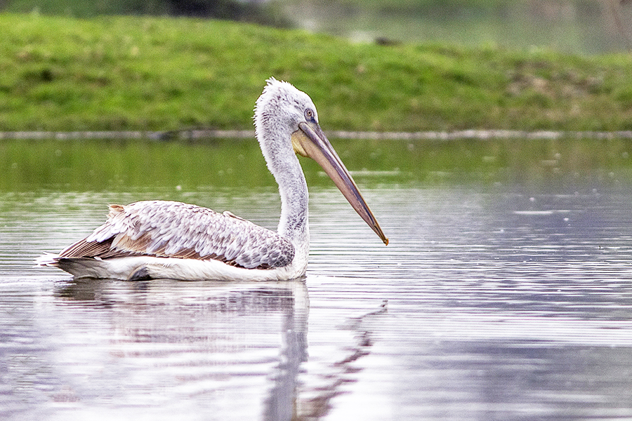 The species Dalmatian Pelican has been photographed at Keoladeo Ghana National Park at Bharatpur, Rajasthan, India on 17th February 2013 during the Bharatpur birding and bird photography tour of GoingWild.